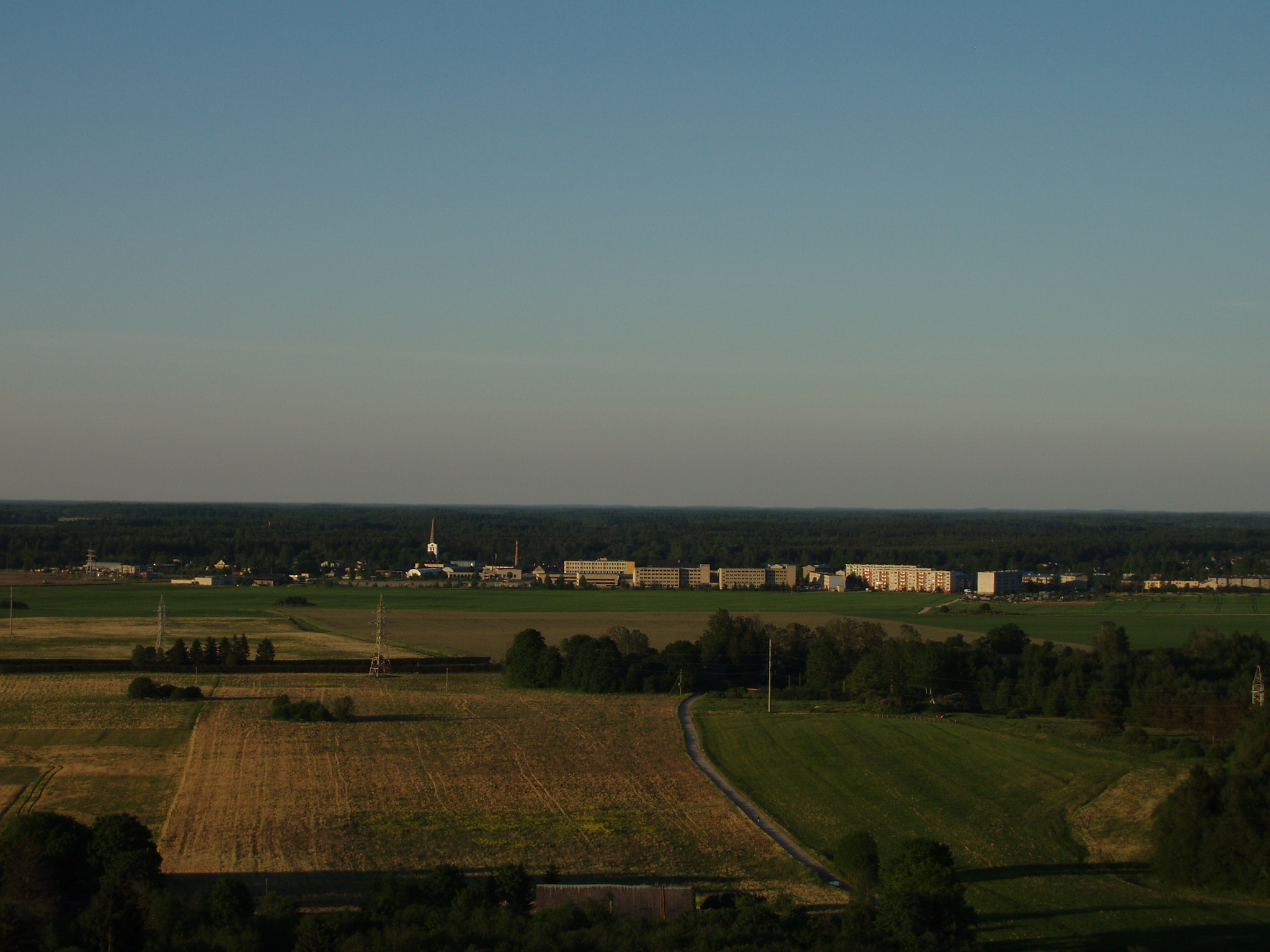 Administrative centre of the Kose Commune in Harju County (Estonia). Small borough (Estonian: alevik) of Kose from air.